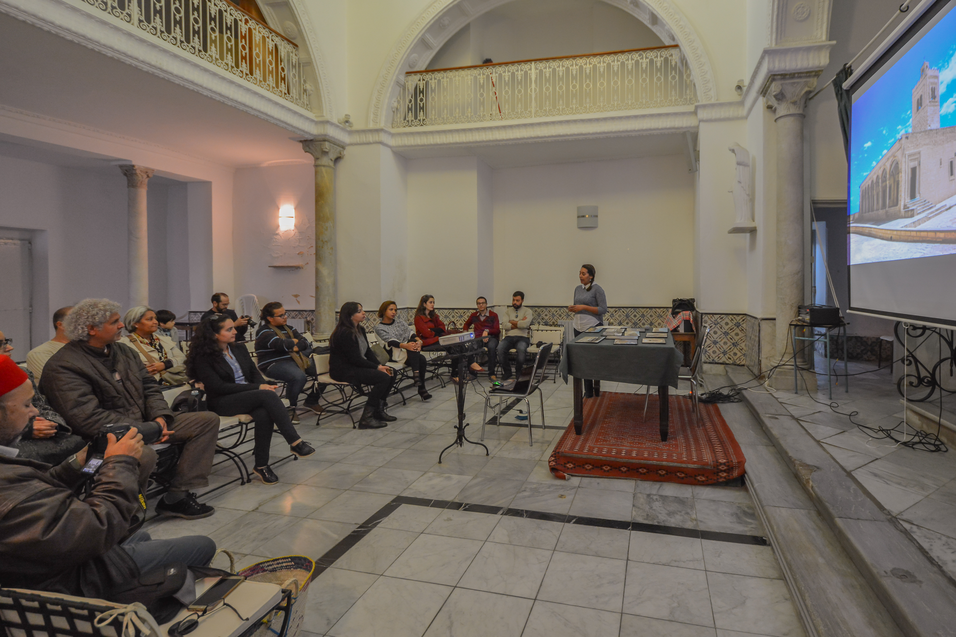 This is the Wiki loves monuments Tunisia award ceremony 2016, held in "La Bibliothéque diocésaine de Tunis" on November 19, 2016